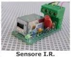 Liteon Infrared Remote Control Sensor